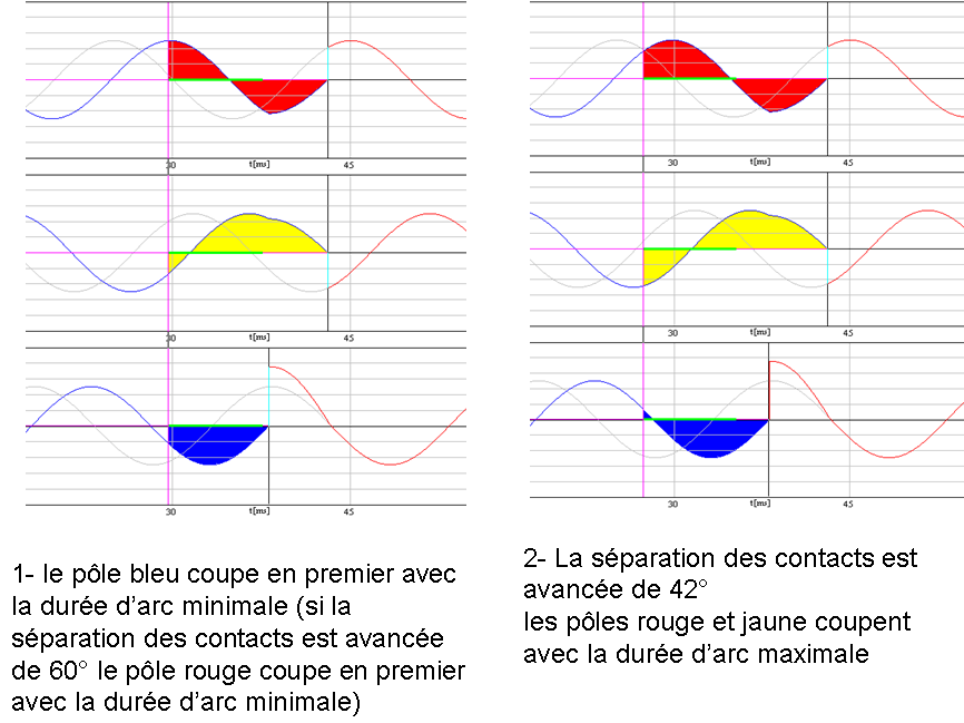 Window of arcing times during 3-phase fault interruption of symmetrical currents